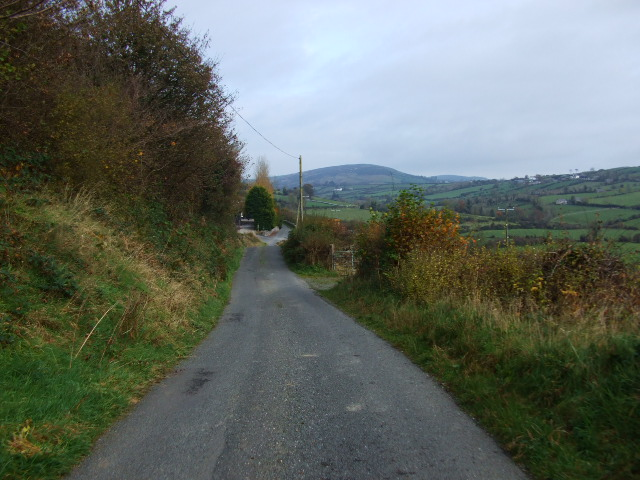 Aughanduff Road, Parish of Forkhill, Barony of Upper Orior, and County of Armagh, Northern Ireland